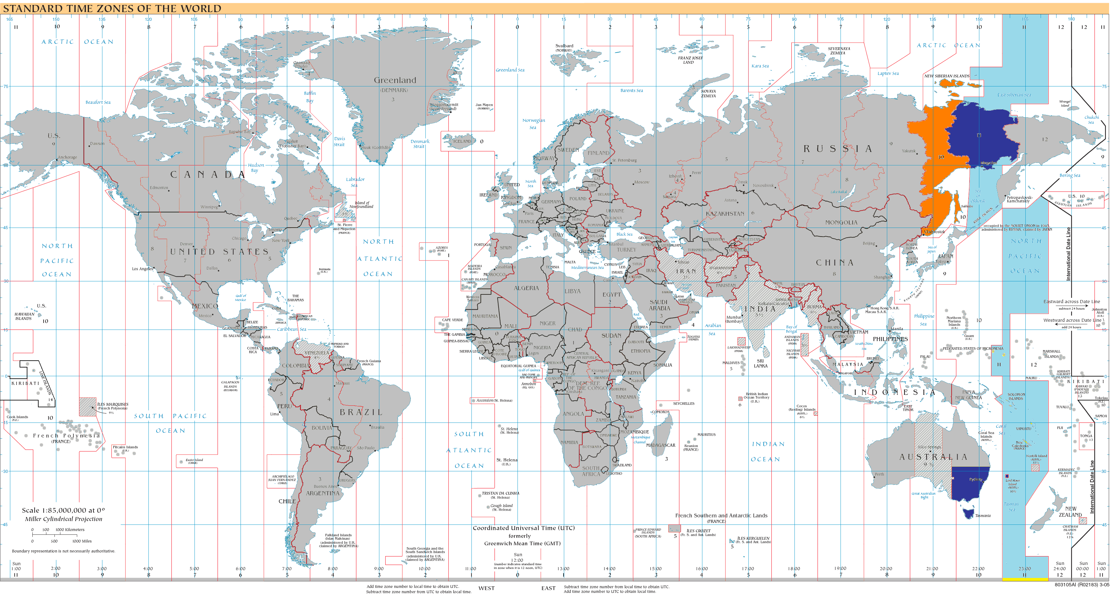 World map of time zones as of 2008, on the Miller Cylindrical Projection and with highlighted UTC+11 zone.